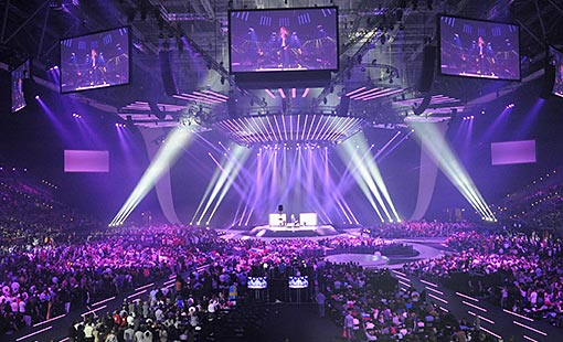 Eurovision 2011